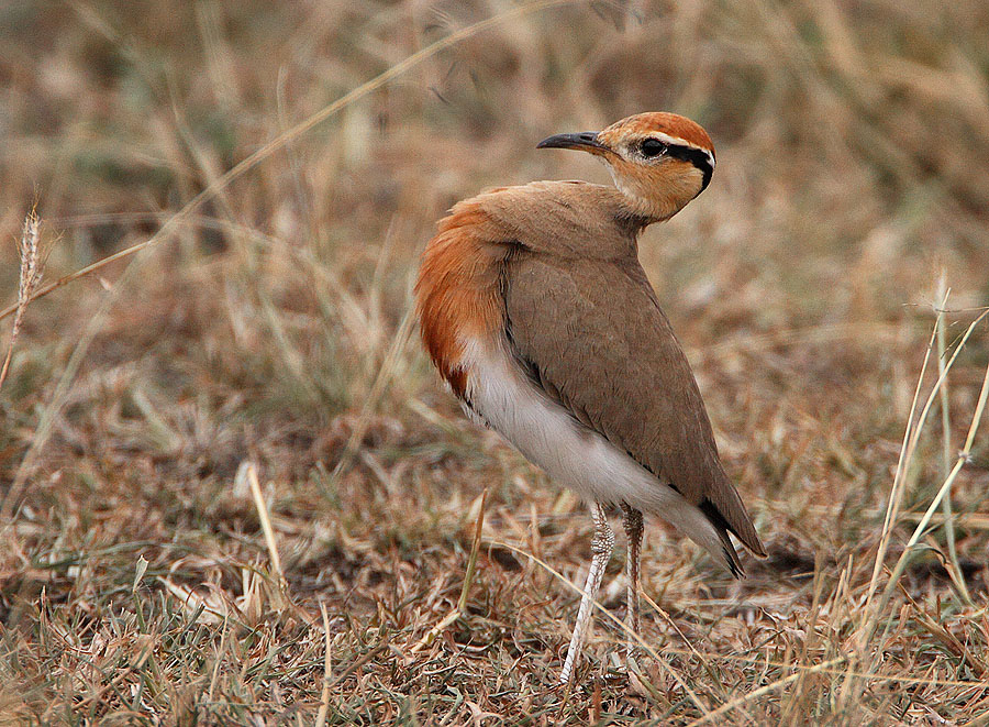 A male Temminck's Courser at Masai Mara National Reserve, Kenya. He was displaying by puffing up his breast and bobbing to a female out of the frame of the photograph.